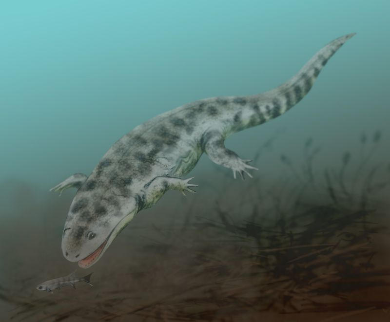 Koskinonodon perfectus was a Temnospondyli from the Late Triassic (Carnian stage) of North America